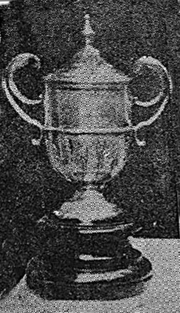 The Copa "Nicasio Vila" trophy, awarded to Rosarian champion.